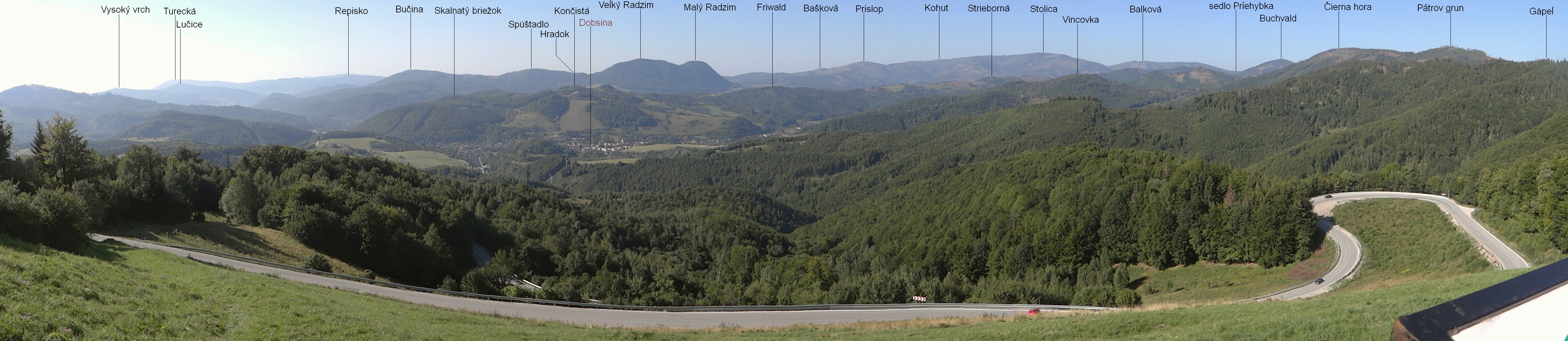 View from Dobšinský kopec